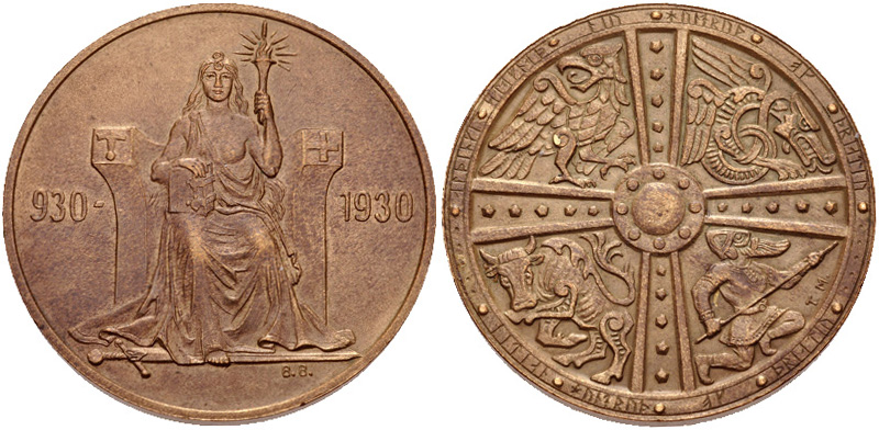 ICELAND, Konungsríkið Ísland. 1918-1940. Brass 2 Kronor (35mm, 19.35 g, 12h). Commemorating the 1000th anniversary of the Alþingi. Saxon State mint in Muldenhutten, Germany. Dually dated 930-1930. Justice seated facing / Icelandic guardian spirits: bull, bird, dragon, and giant, within quarters of a beaded cross pattée. Bruce (X) M1. EF.